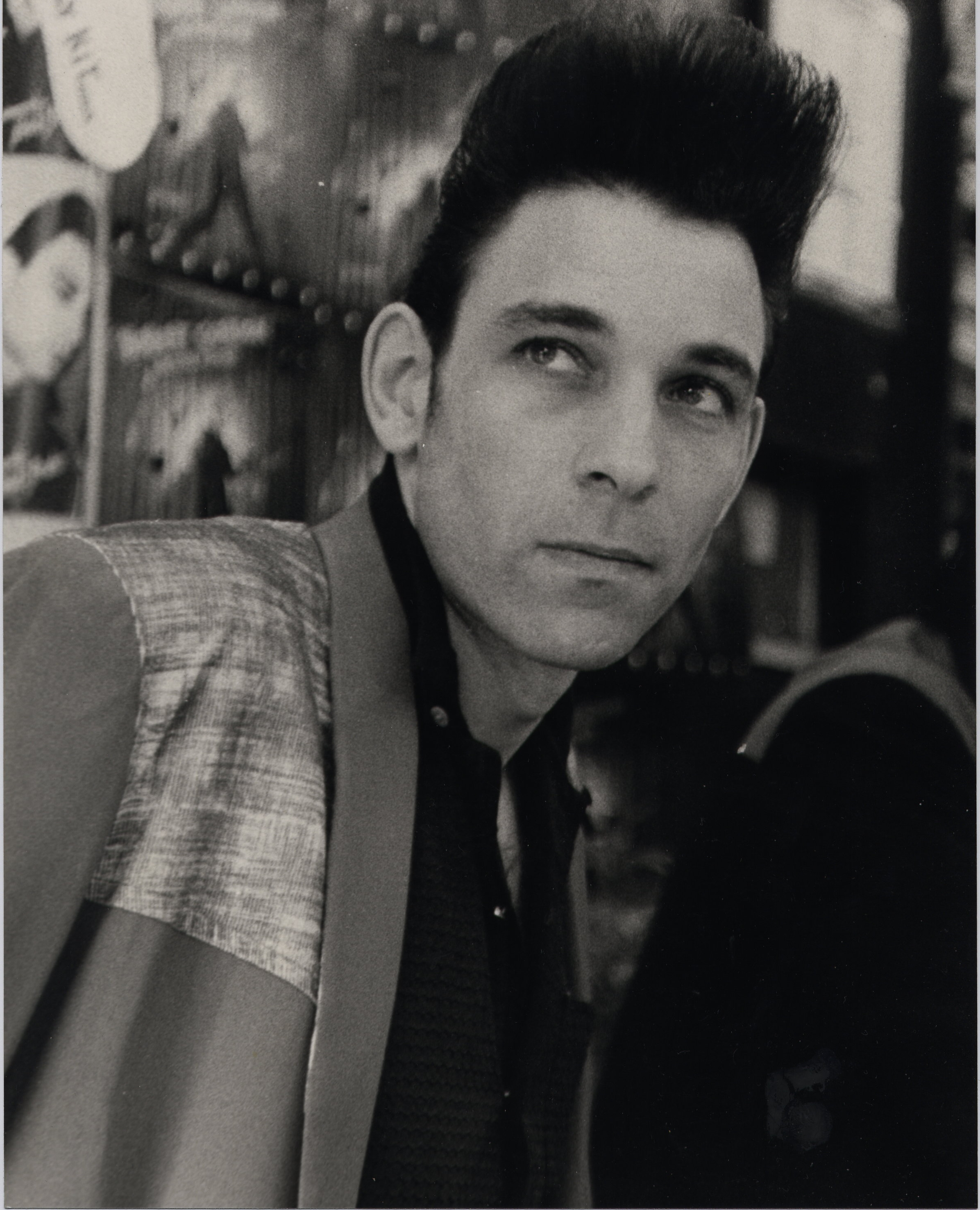 American rockabilly singer Robert Gordon